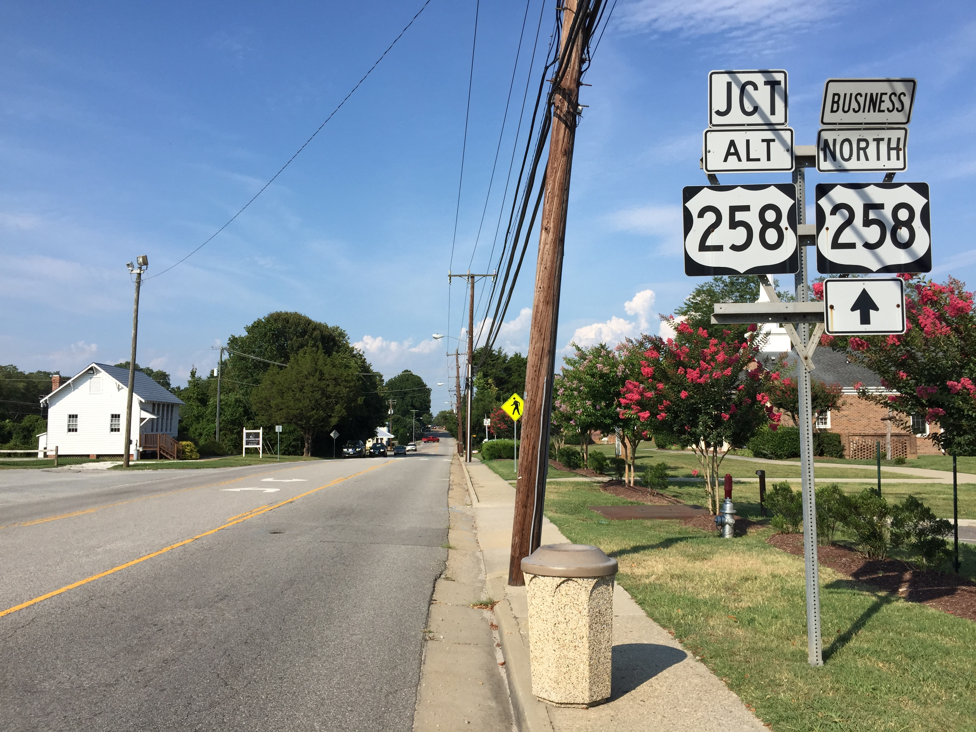 View north along U.S. Route 258 Business (Main Street) at U.S. Route 258 Alternate (Grace Street) in Smithfield, Isle of Wight County, Virginia